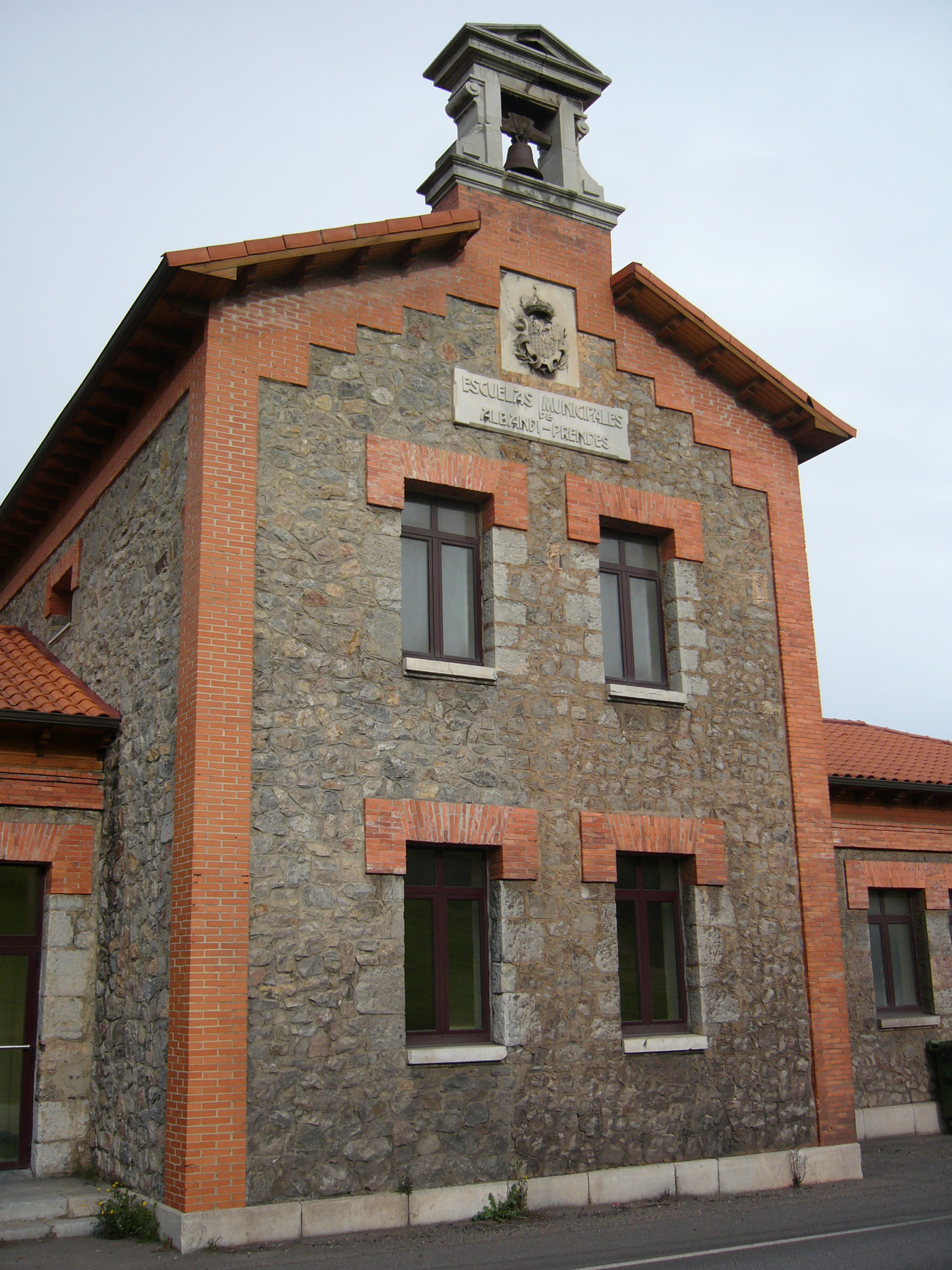 Old school of Priendes (Carreño - Asturies - Spain)